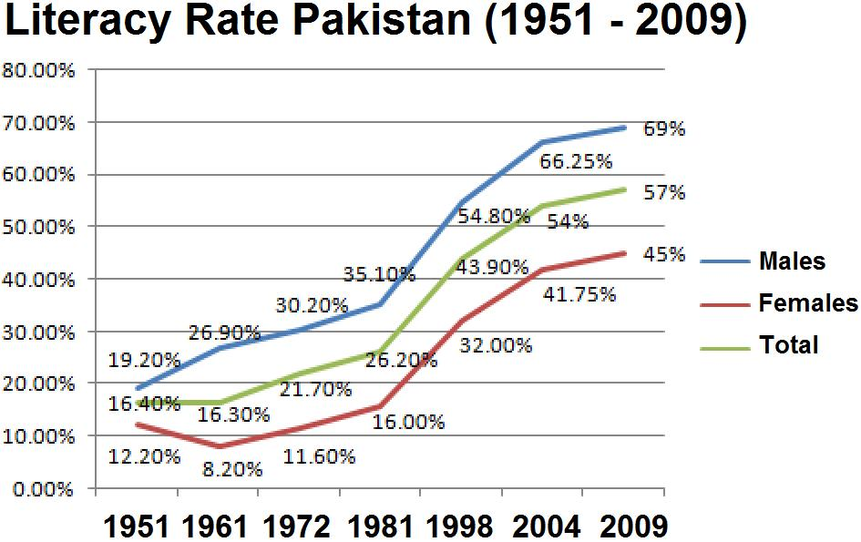 Made by myself, by using the data from the following sources